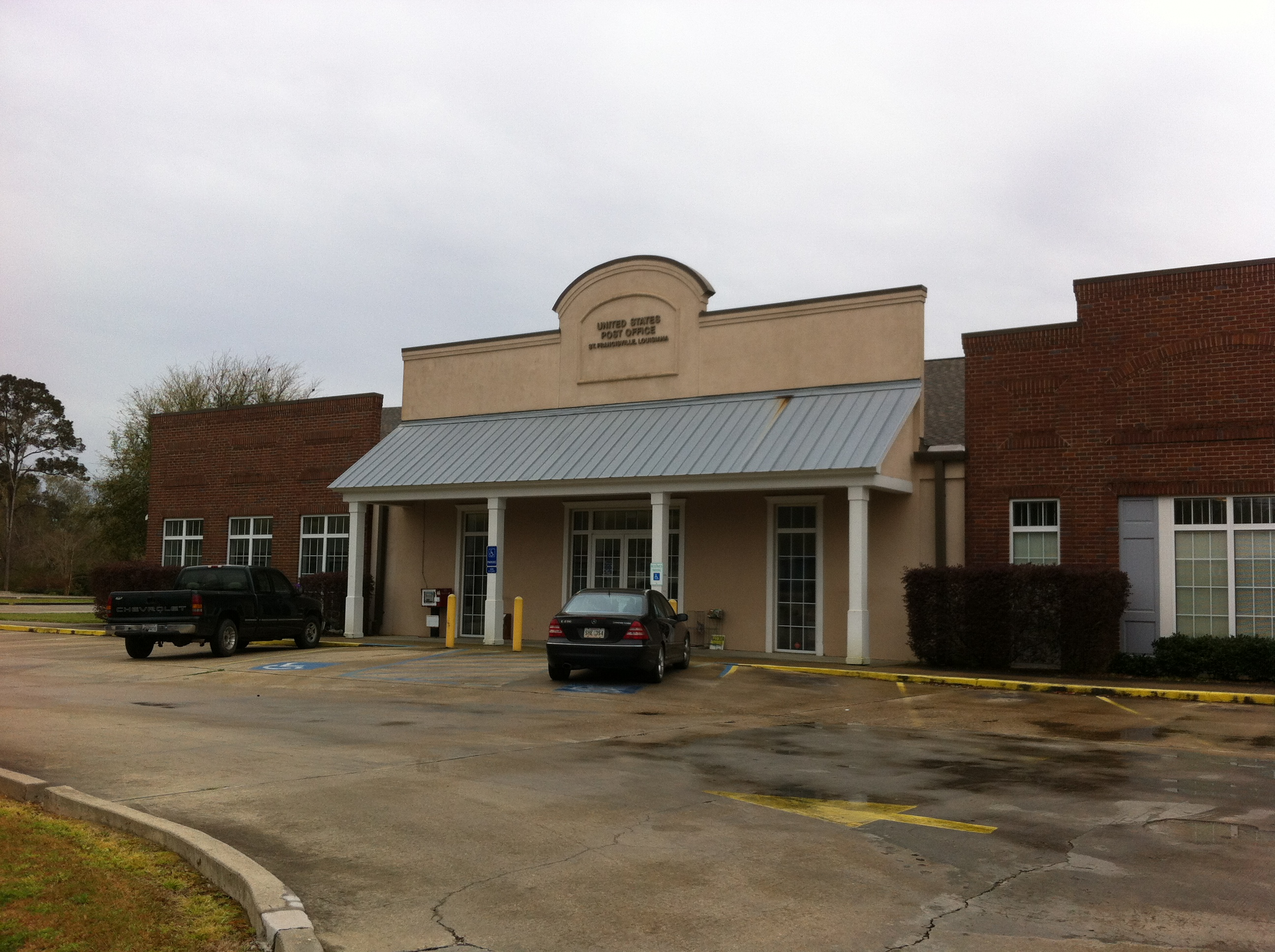 St. Francisville, Louisiana Post Office